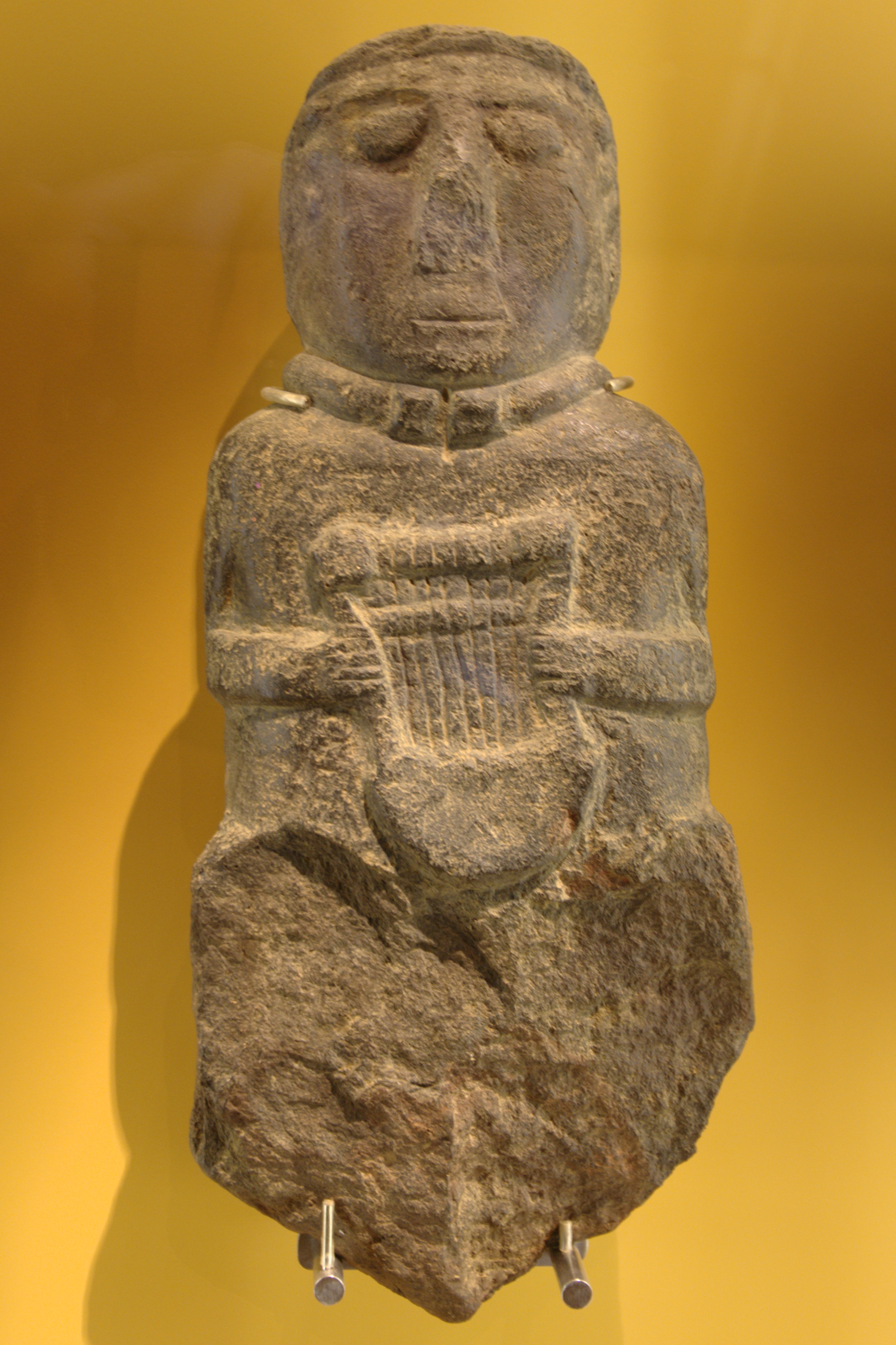 copy of the statue of a bard in the Musée de Bretagne (La Tène culture).